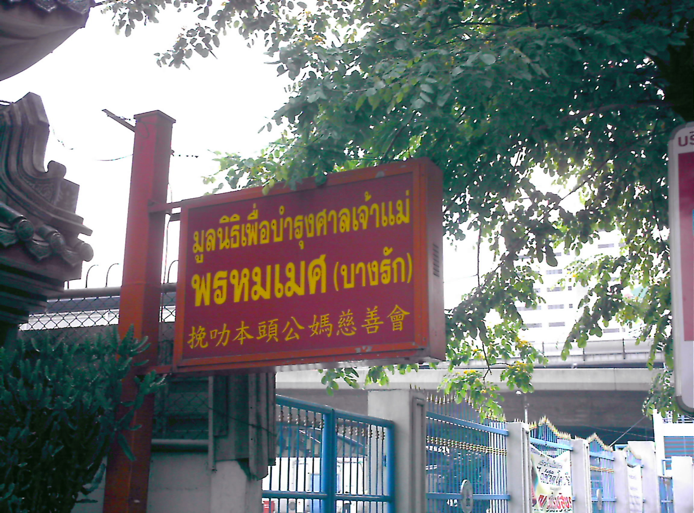 The sign for Charities of Chinese Earth Godess at 1614/1 Charoen Krung Road, Bang Rak, Bangkok, Thailand 中文（香港）: 泰國，曼谷，挽叻縣，石龍軍路 1614/1號，本頭媽廟(谷雞媽)，挽叻本頭公媽慈善會的招牌